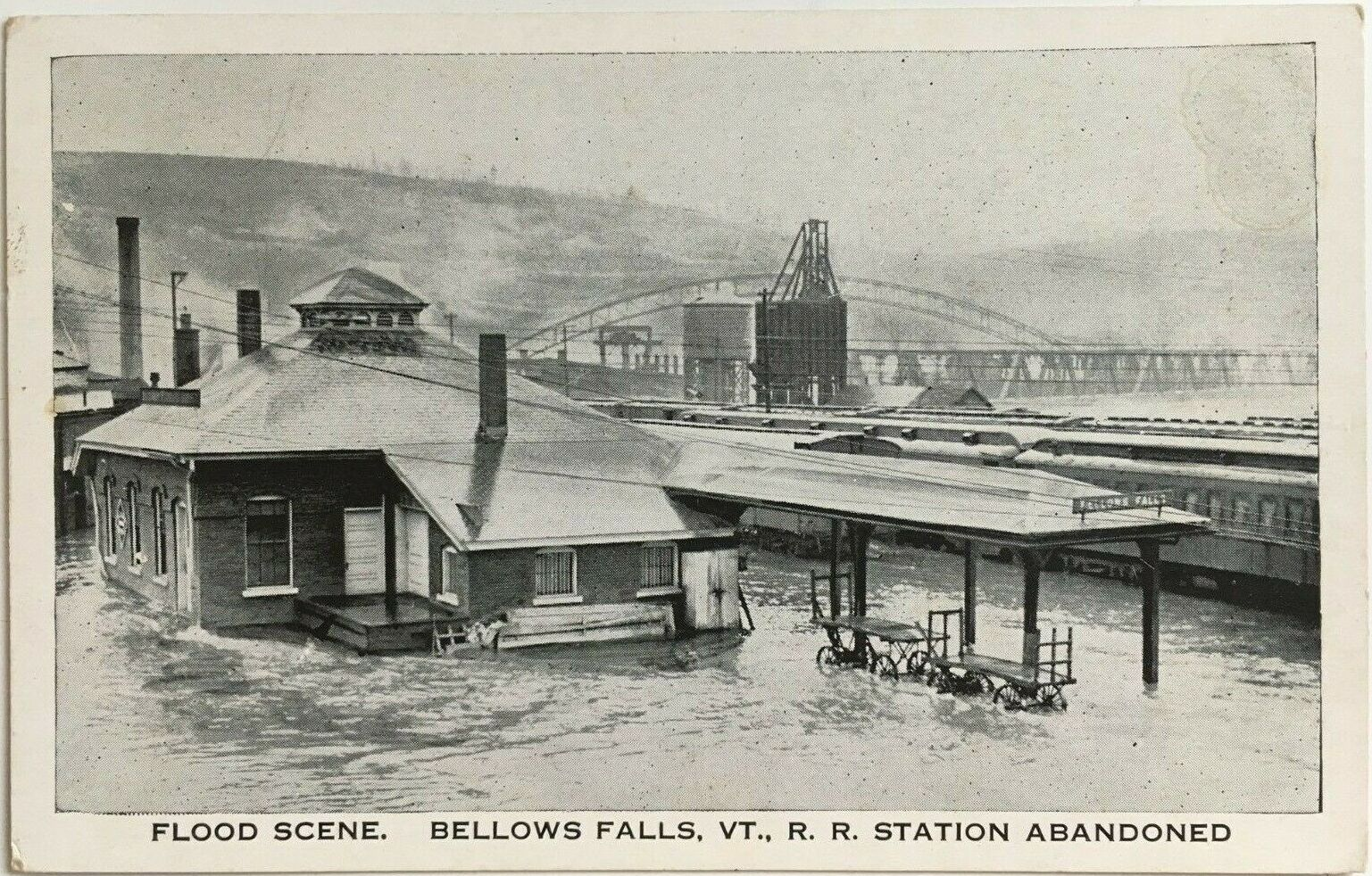 Early white border postcard of Bellows Falls station during a high flood, likely showing the 1927 floods